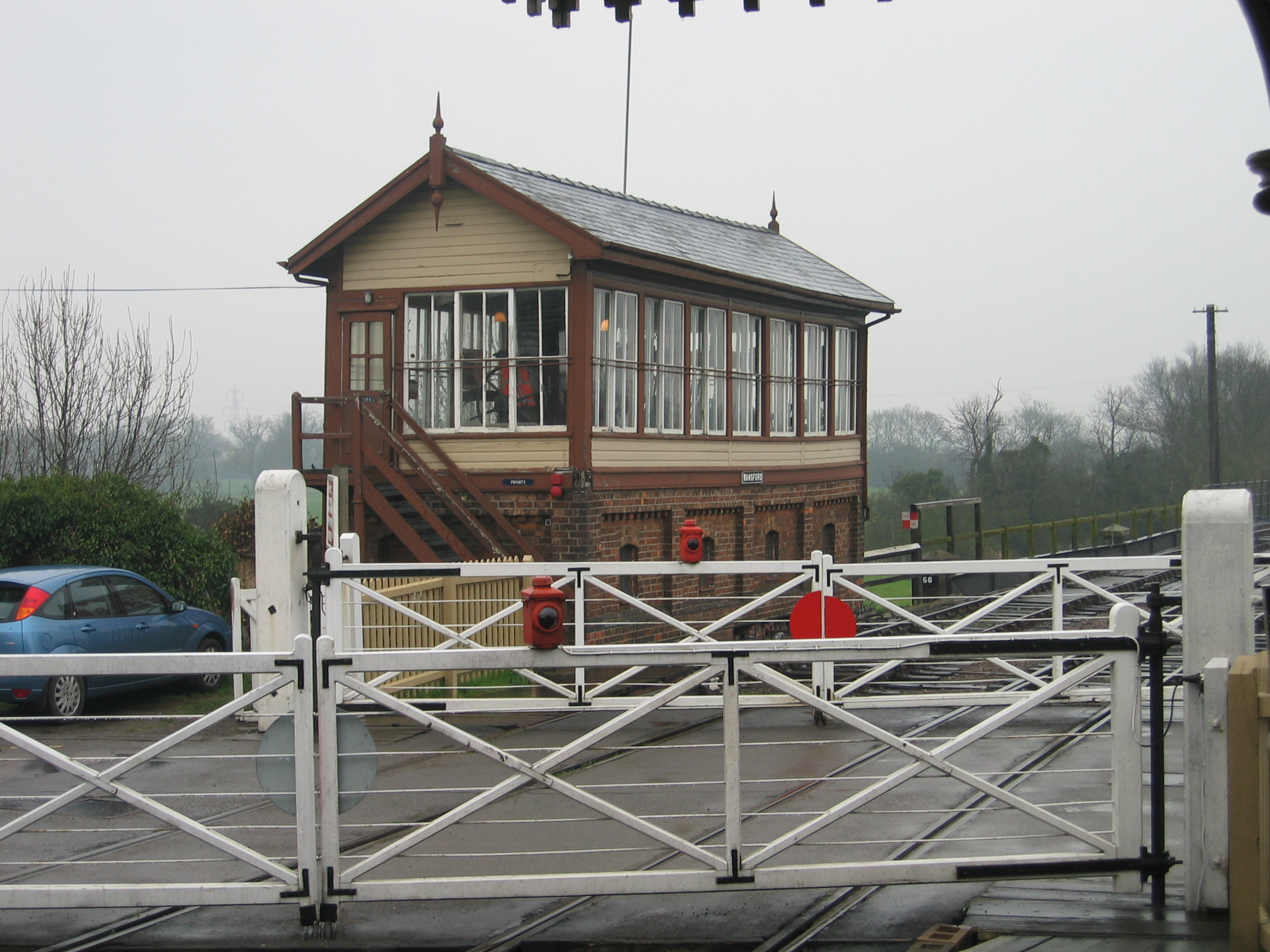 Signal Box at Wansford Station with the level crossing in the foreground. Photograph By Robert Kilpin. (C) Belongs to Robert Kilpin. This picture can be used for non-commercial and/or educational purposes. (C) Robert Kilpin